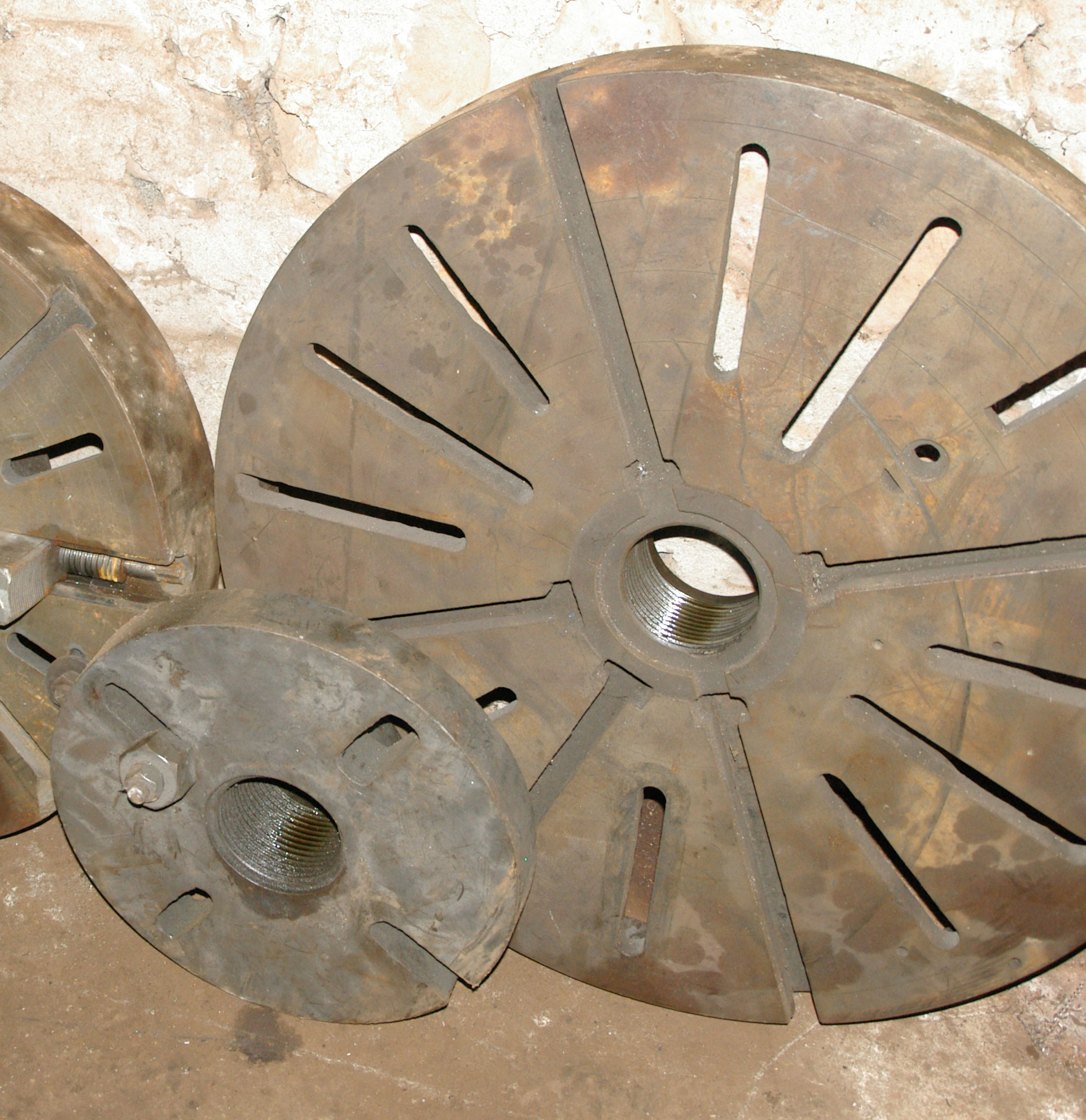 A dog face plate and a conventional plate